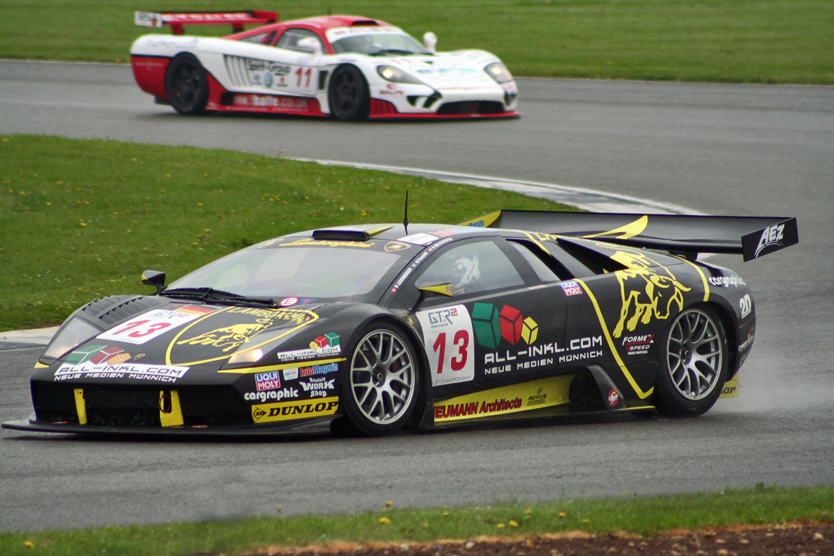 Lamborghini Murcielago Taken at the FIA GT Championship 7th May 2006 Silverstone